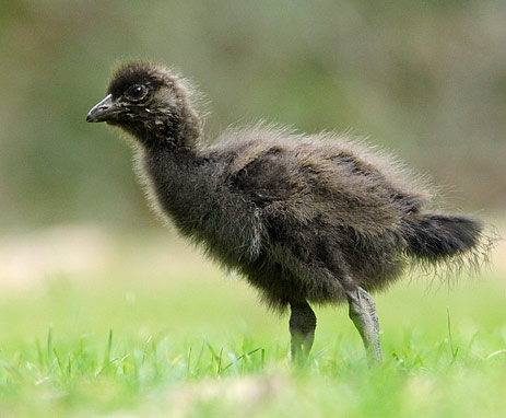 Tasmanian Native-hen chick